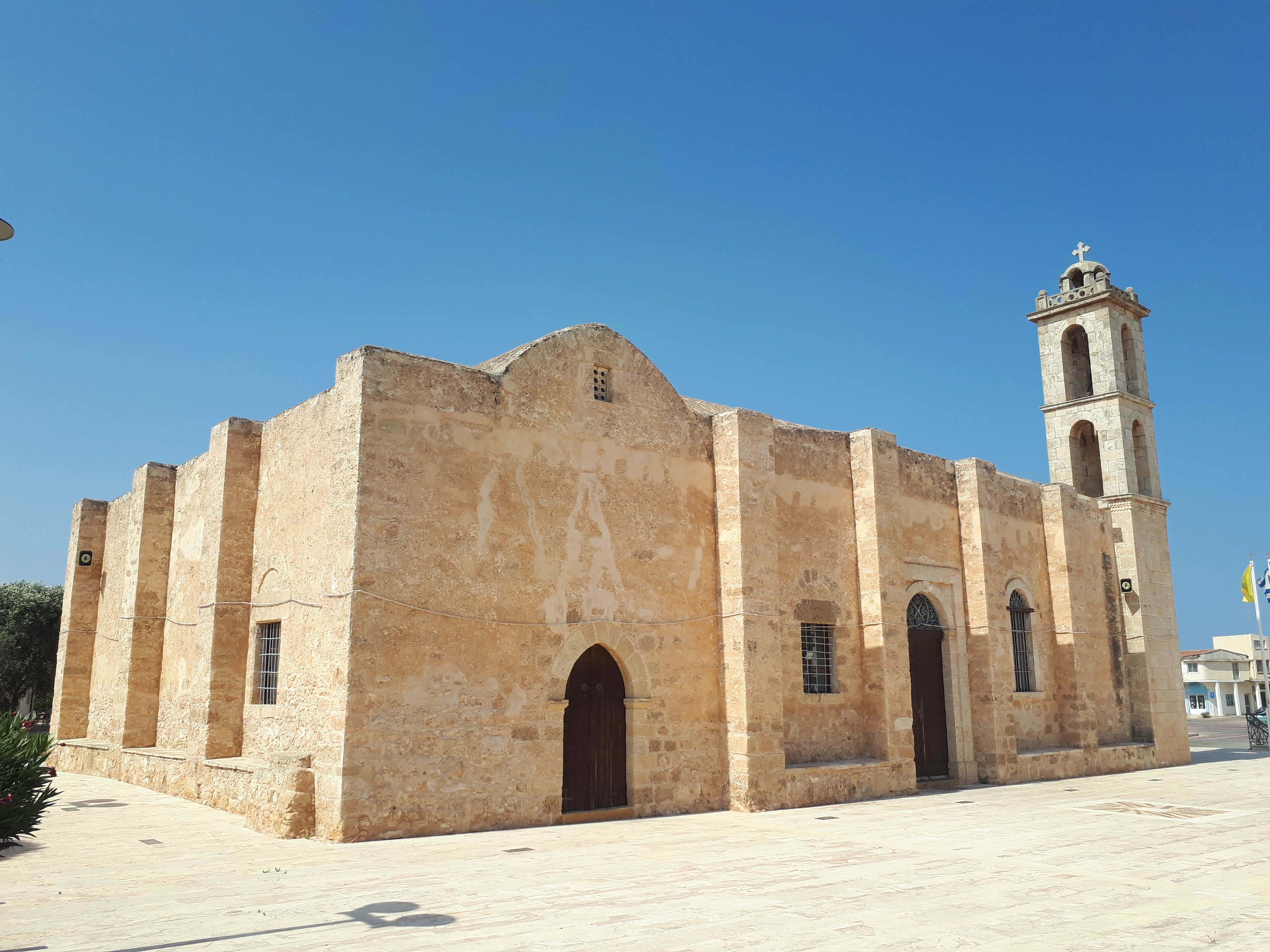 A view of the Virgin Mary Nativity Church in the village of Deryneia, Famagusta district, Cyprus